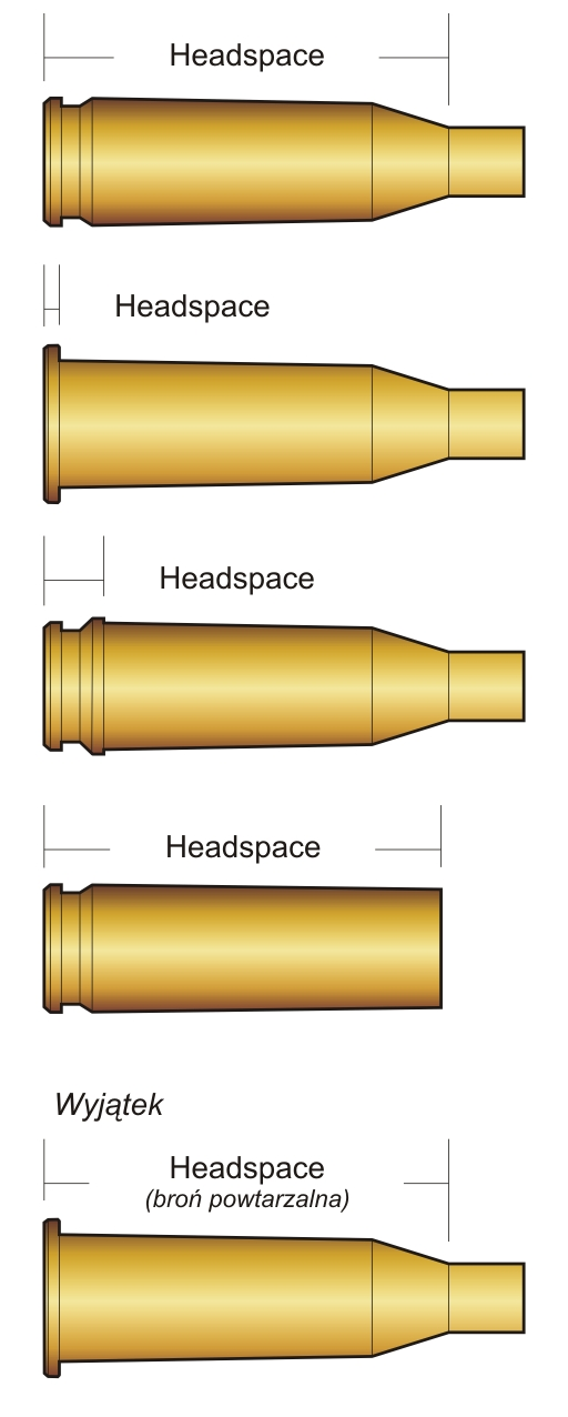 case headspace